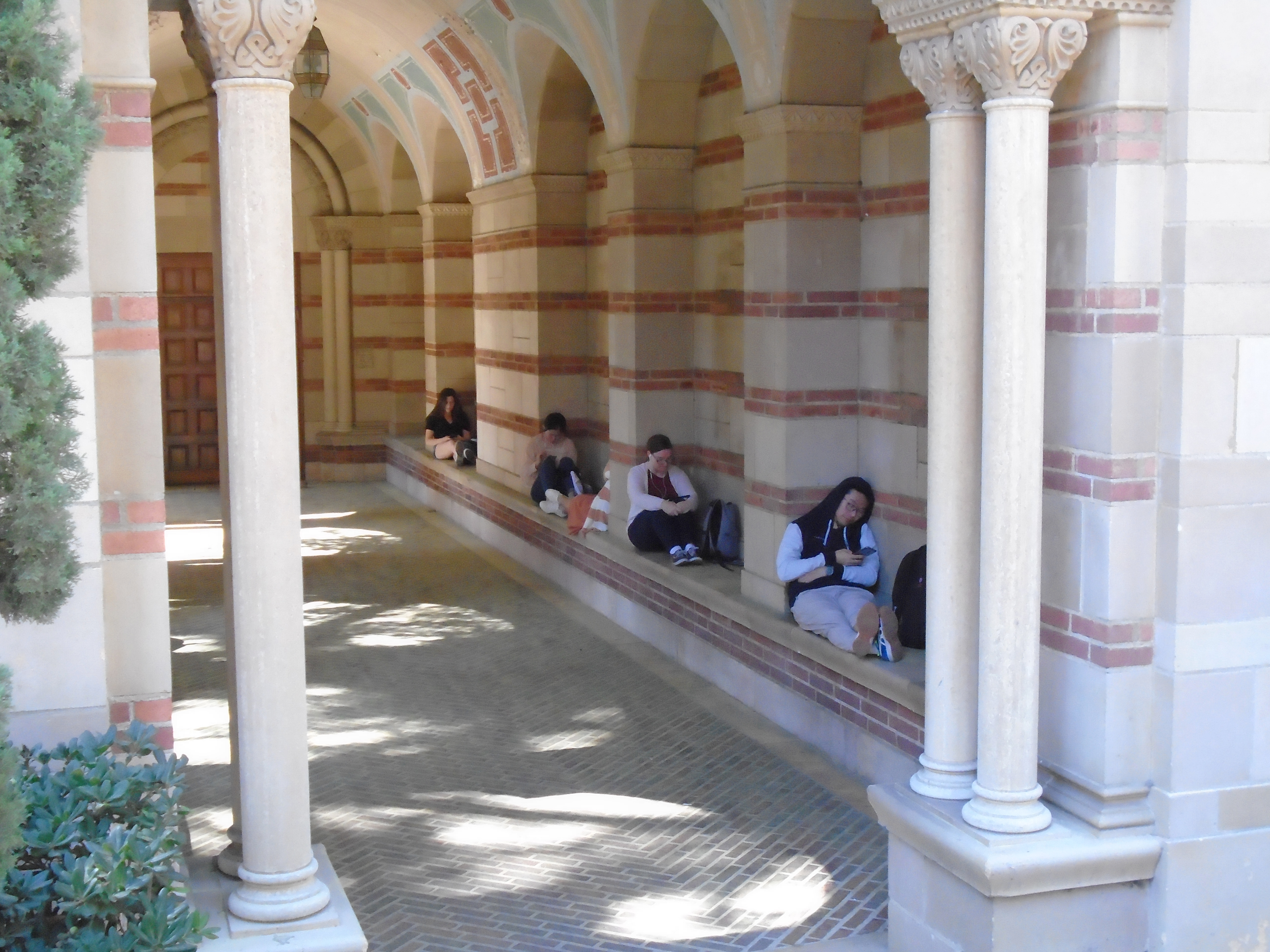 Royce Hall on Dickson Court on the Westwood campus of the University of California, Los Angeles (UCLA), is one of the campus's four original buildings – along with the College Library (now Powell Library), the Chemistry Building (now Haines Hall} and the Physics-Biology Building (later the Humanities Building and now Kaplan Hall) – all of which were designed by the Los Angeles firm of Allison & Allison in the Italian Romanesque Revival style. Completed in 1929, it was named after Josiah Royce, a California-born philosopher who received his bachelor's degree from UC Berkeley in 1875. The building's exterior is modeled after Milan's Basilica of Sant'Ambrogio.